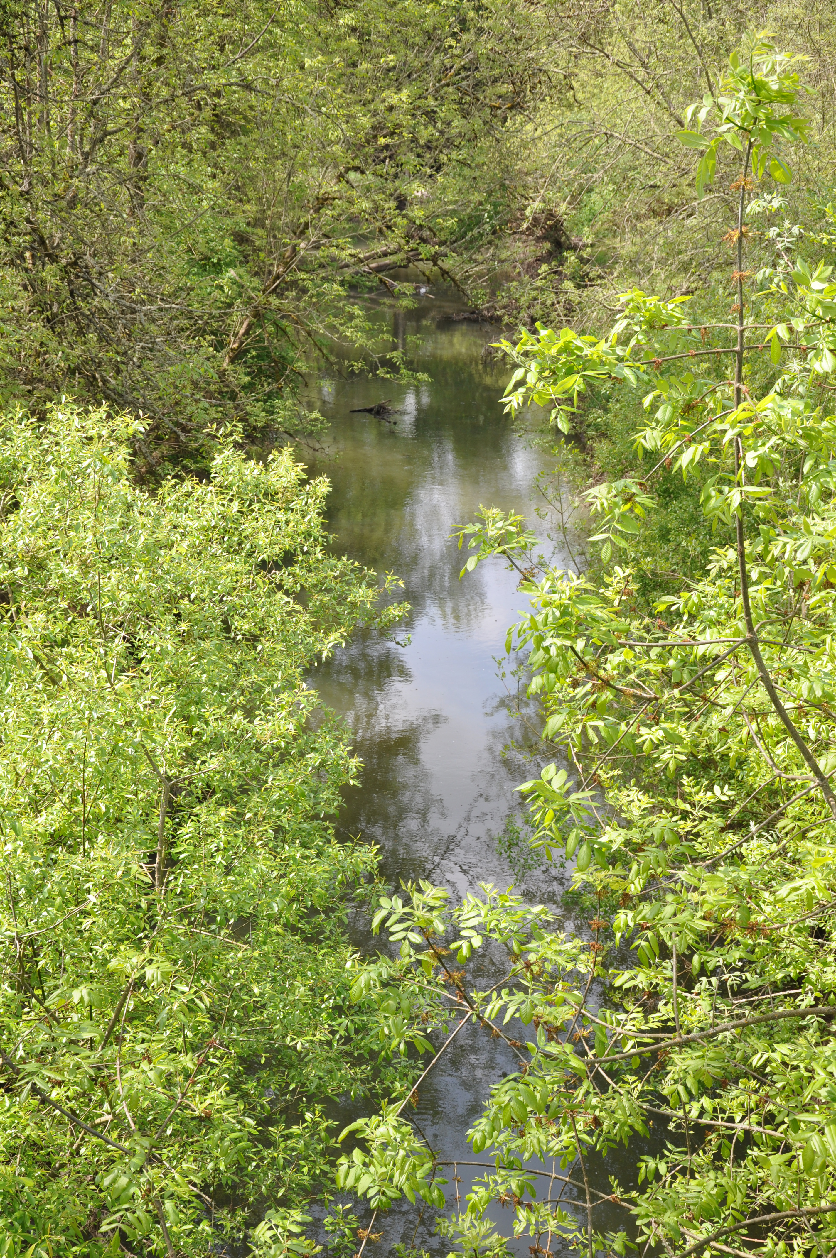 Ash Creek is a tributary of the Willamette River in the U.S. state of Oregon. The image shows the creek in its lower reaches within the city of Independence.